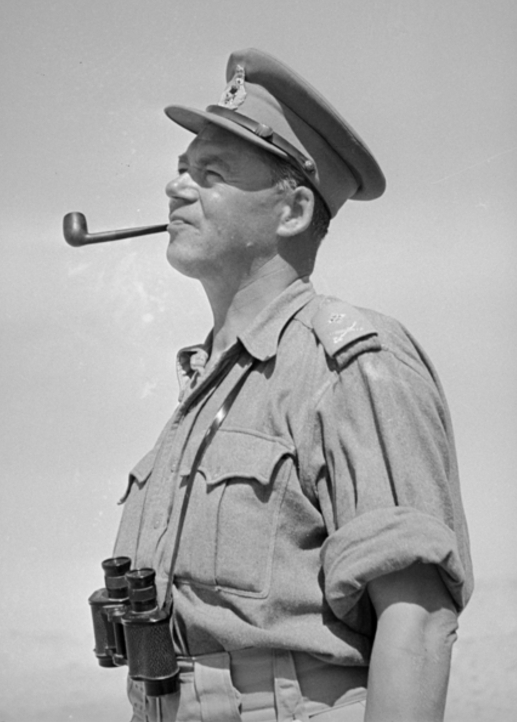 Portrait of Acting Major General Lindsay Merritt Inglis, GOC NZ Division when General Freyberg was wounded. Photograph taken in Egypt on 16 August 1942 by H Paton. Acting Major General Lindsay Merritt Inglis, Egypt - Photograph taken by H Paton. New Zealand. Department of Internal Affairs. War History Branch :Photographs relating to World War 1914-1918, World War 1939-1945, occupation of Japan, Korean War, and Malayan Emergency. Ref: DA-02567-F. Alexander Turnbull Library, Wellington, New Zealand. H. Paton was an official photographer of the NZ Military Forces and thus copyright in this work rests with the Crown. The work has licenced for re-use under CC 3.0. Refer to source website webpage on copyright information